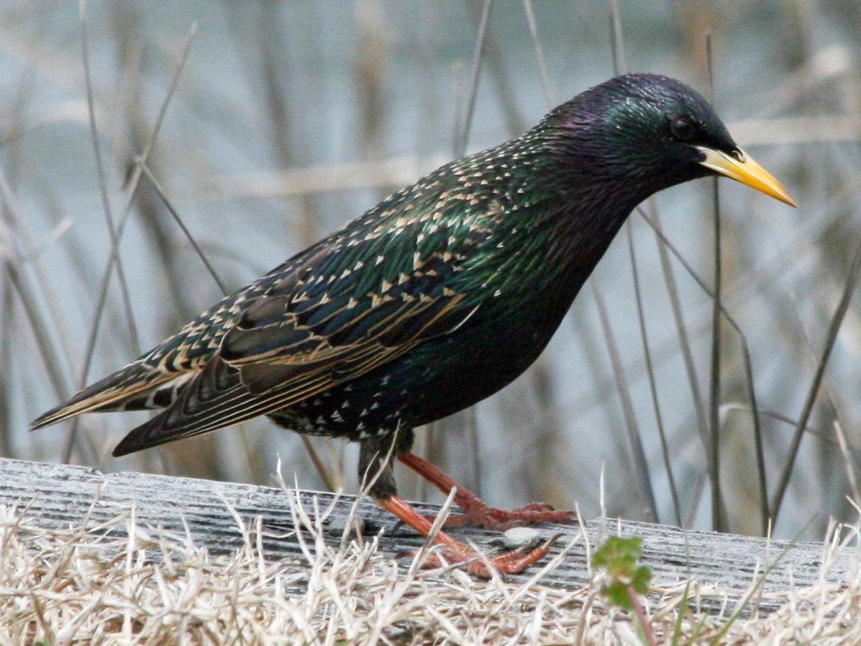 European Starling (Sturnus vulgaris) at Sunset Beach, North Carolina